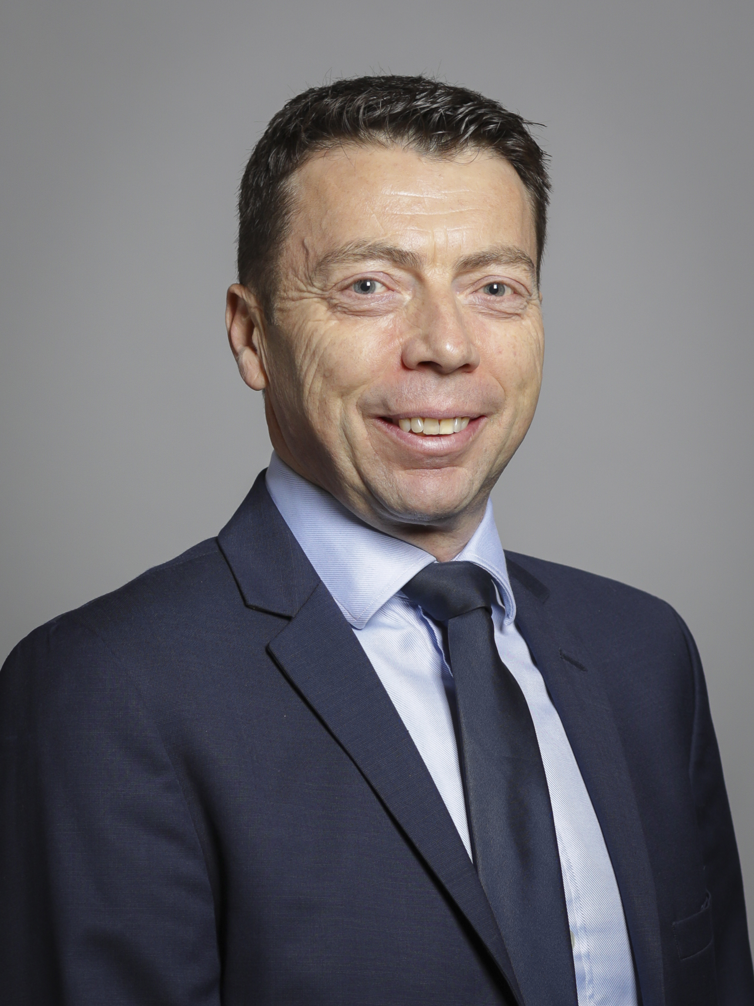 Official portrait of Lord McNicol of West Kilbride 3×4 portrait of Lord McNicol of West Kilbride